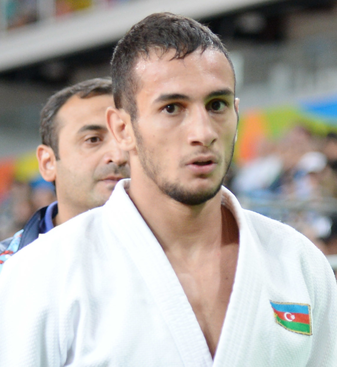 Judo at the 2016 Summer Olympics, Safarov vs Bestaev